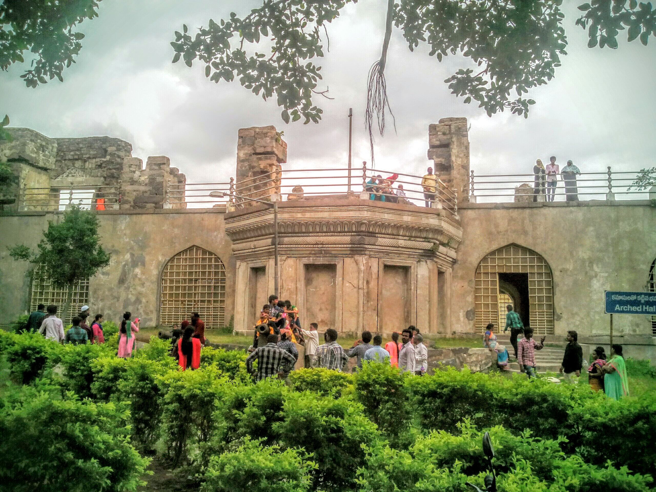 Kondapalli fort